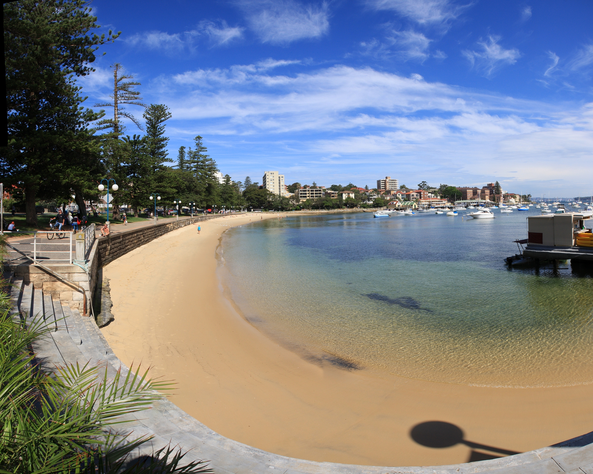 Manly, new south wales